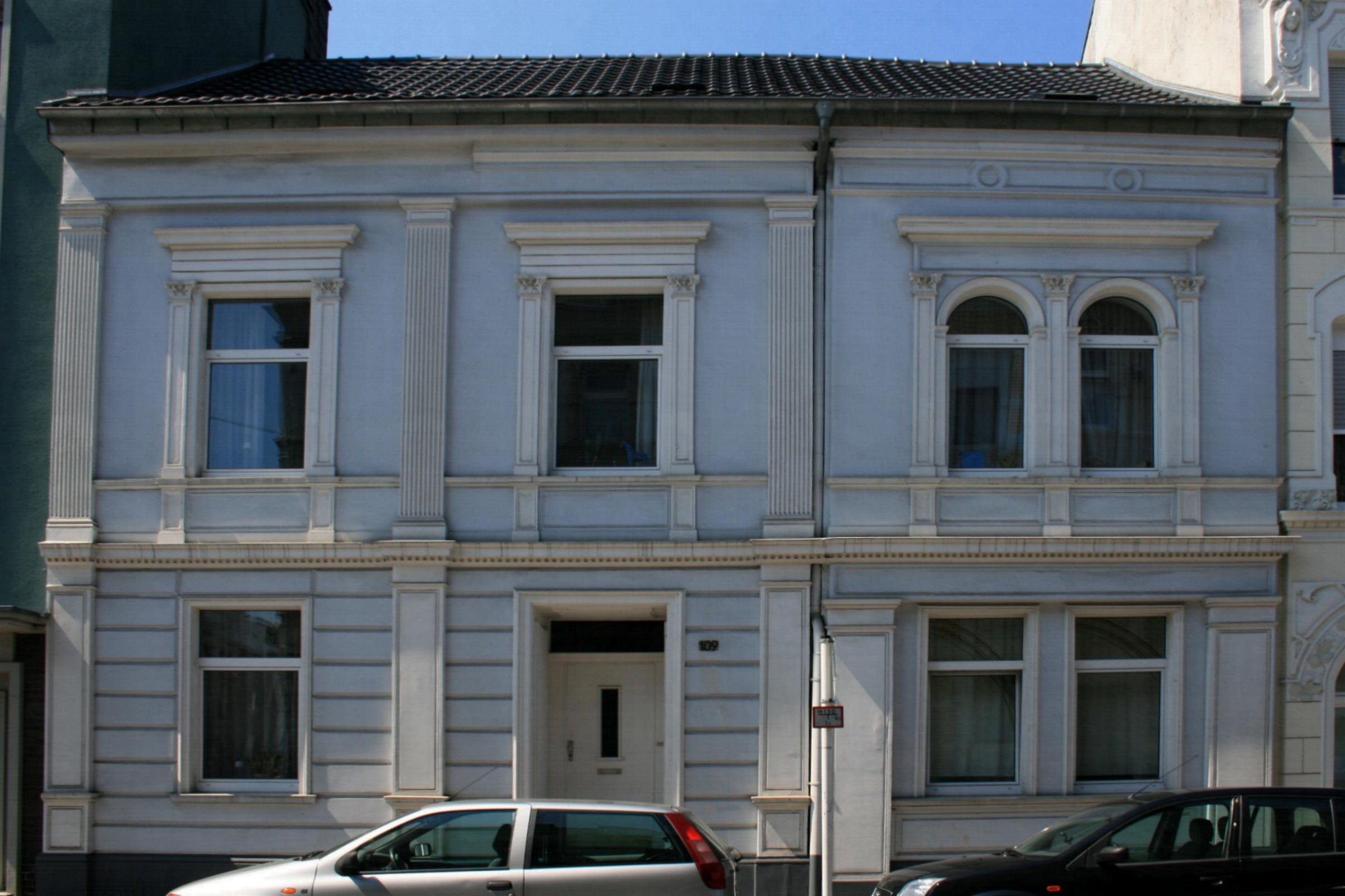 Cultural heritage monument No. R 055 in Mönchengladbach